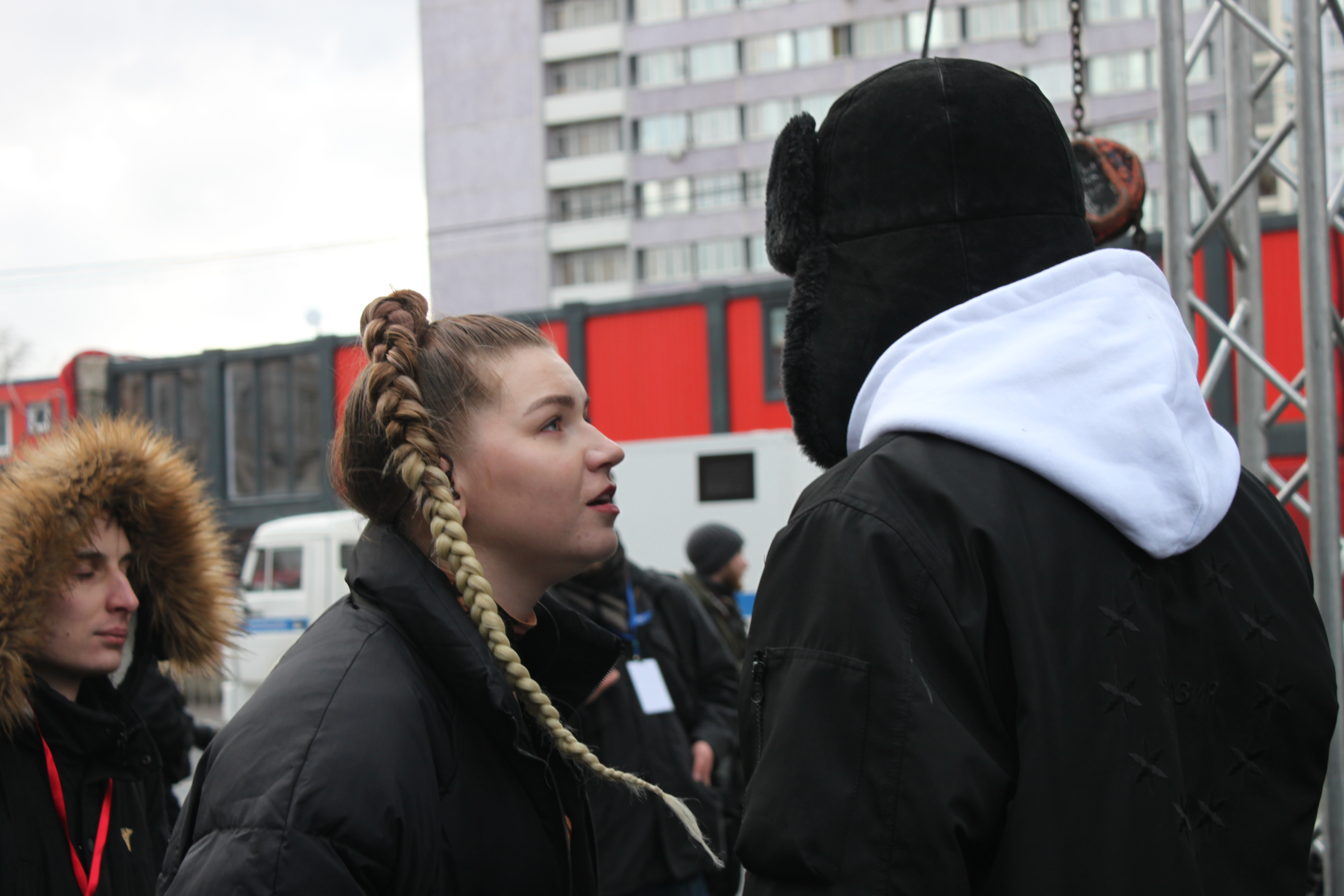 Rally against the isolation of Runet (2019-03-10).